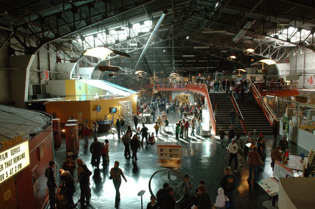 A look inside the Exploratorium in the Palace of Fine Arts